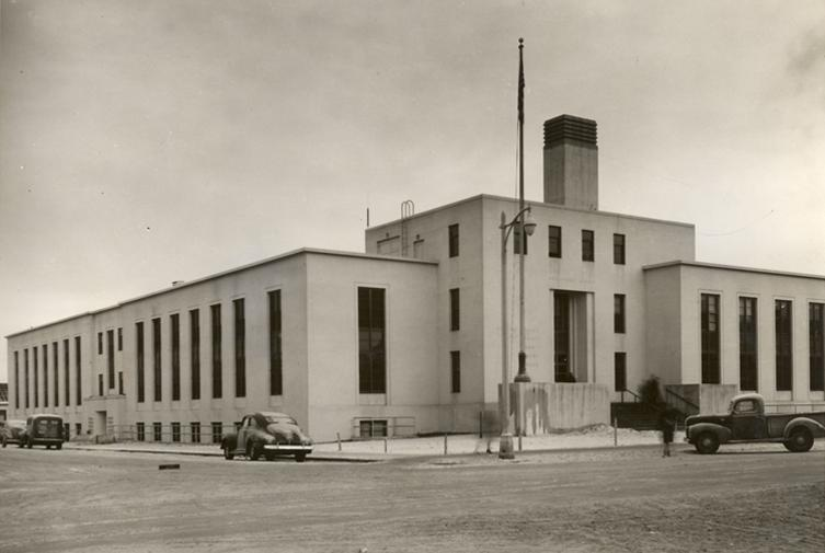 U.S. Post Office and Courthouse (1941) Completed in 1940. Architect: Gilbert Stanley Underwood Still in use by the U.S. District Court for the District of Alaska.